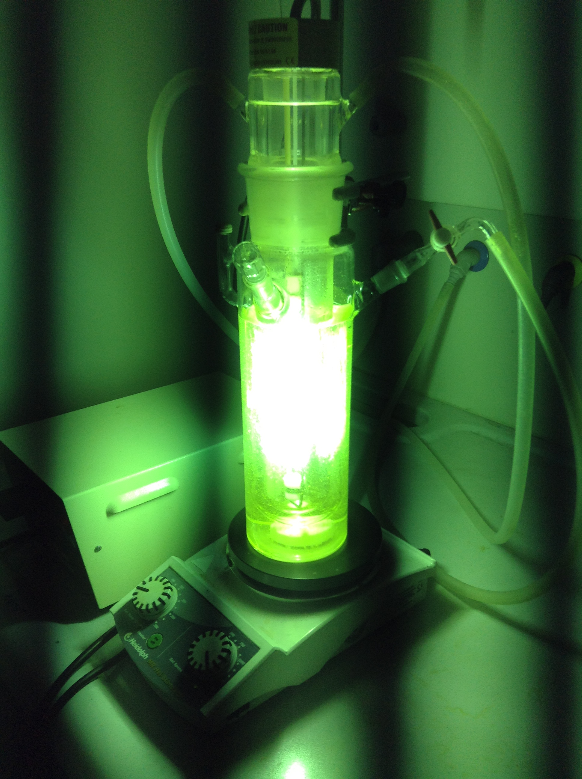 400 W Hg UV lamp in a photochemical immersion well reactor of 750 mL